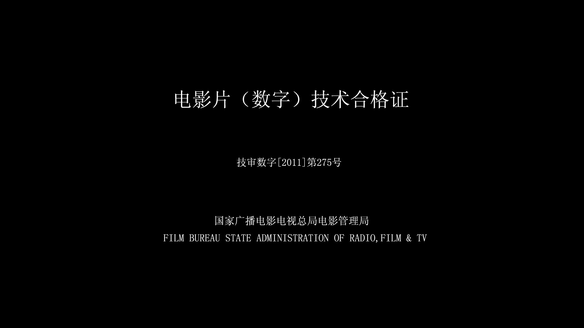 Film (digital) technical certificate